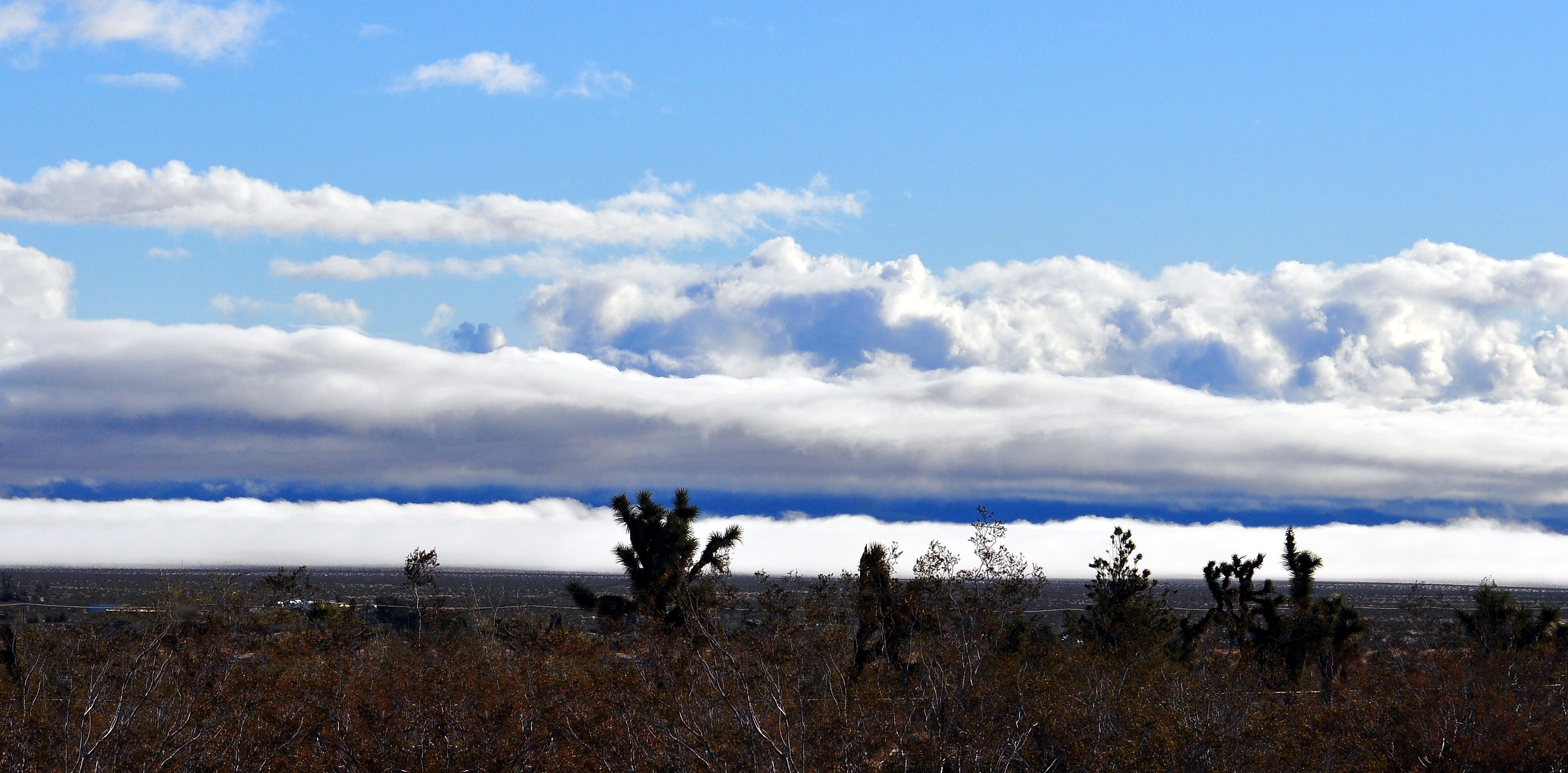 The morning after a major rainfall in the Mojave desert, reveals a lifting massive fog bank, eventually joining with the clouds above it.